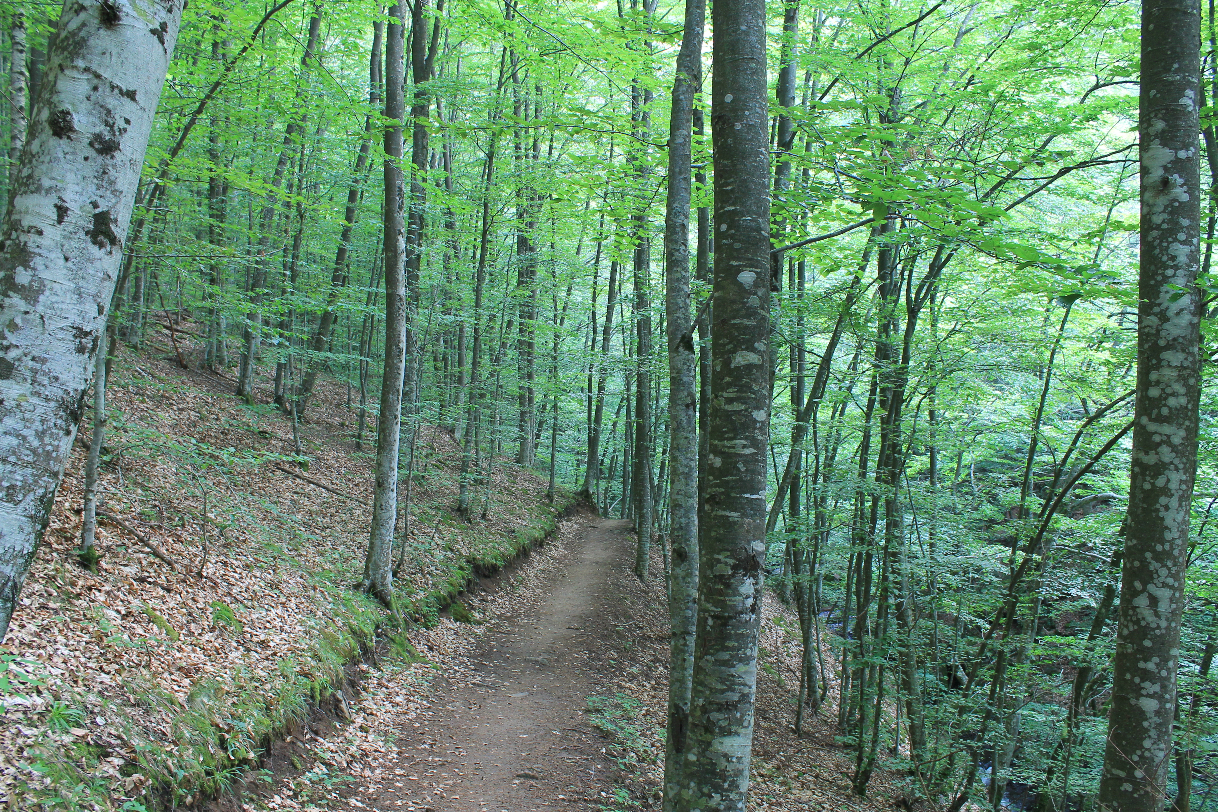 This is a photography of Natura 2000 protected area with ID GR1140001